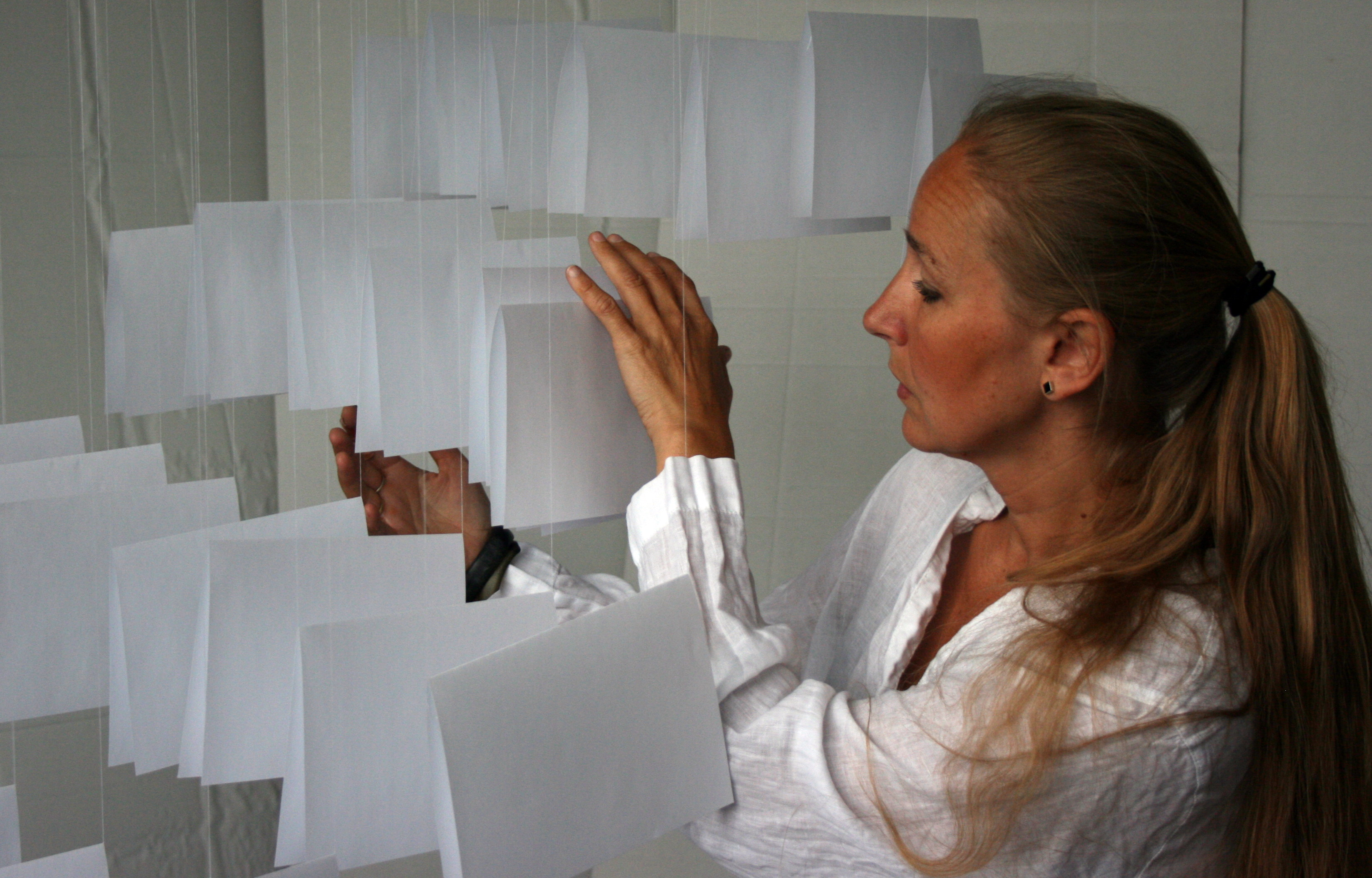 Danuta Karsten